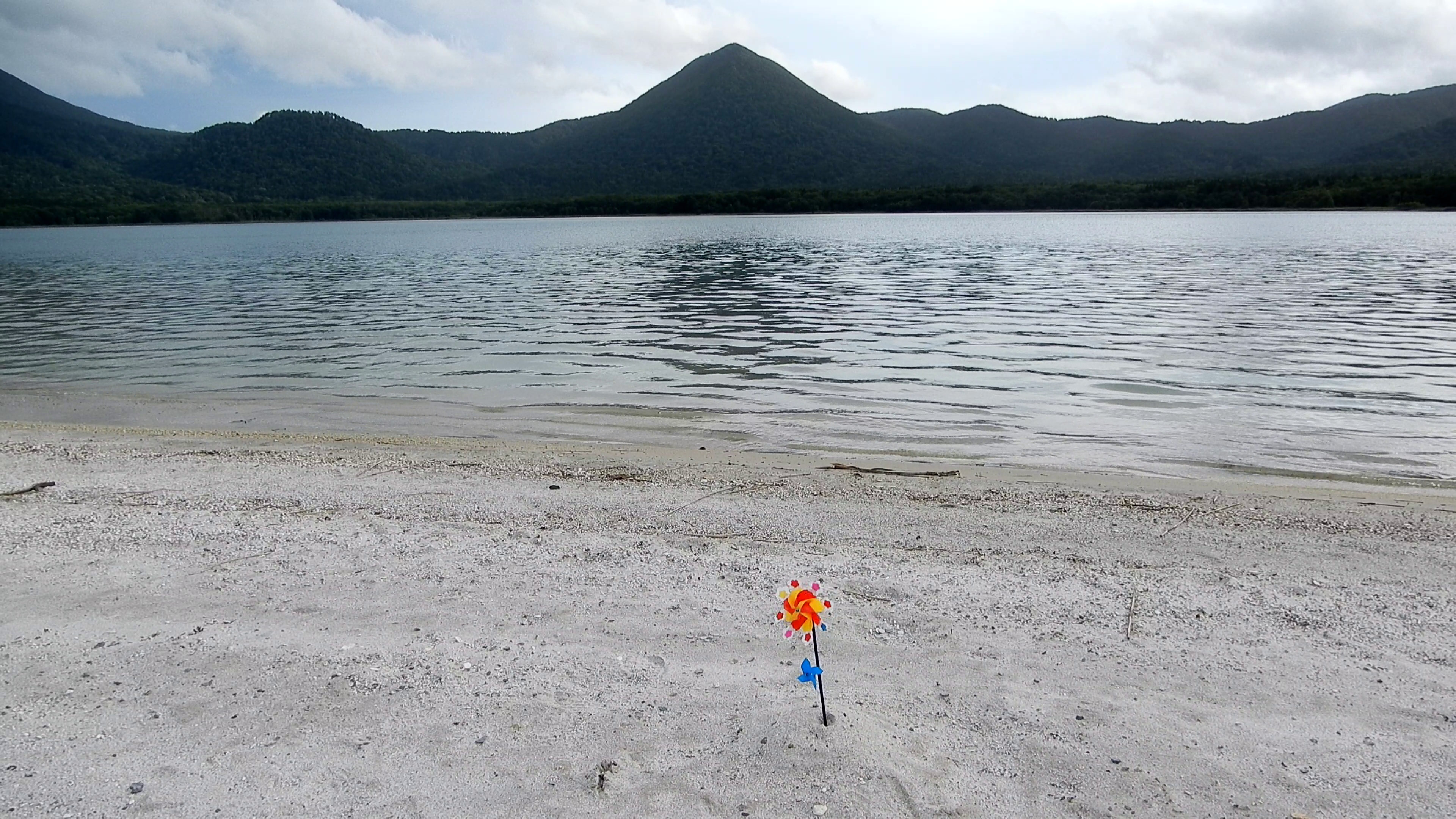 Pinwheel for memorial service for the dead, and for showing the direction of the wind containing sulphurous gas. This photo was taken at at OSOREZAN, or Mount Osore, Aomori Prefecture, Japan.